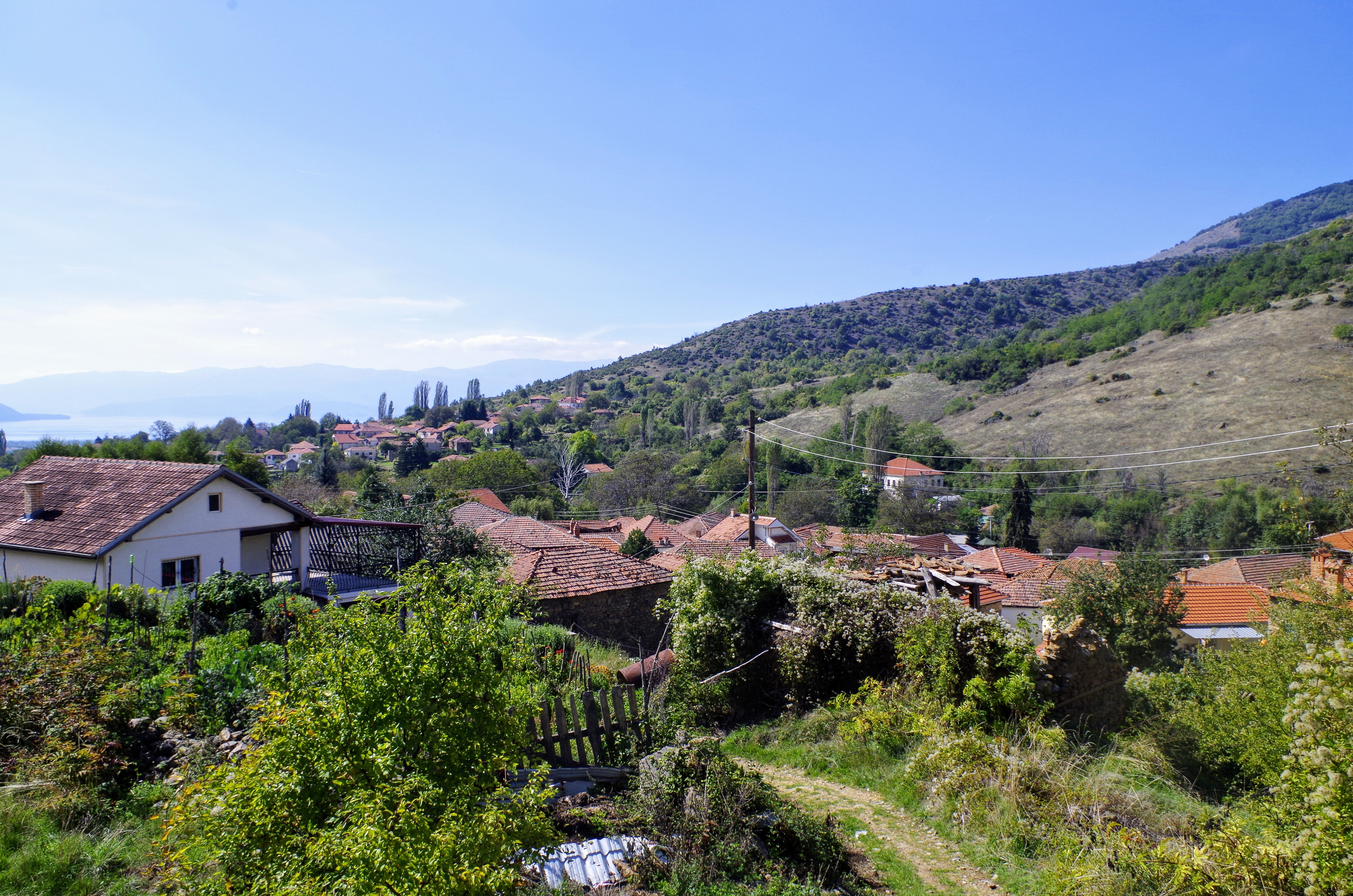 View of the village Brajčino